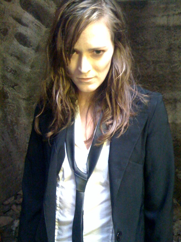 Actress Cornelia Dörr (2009)